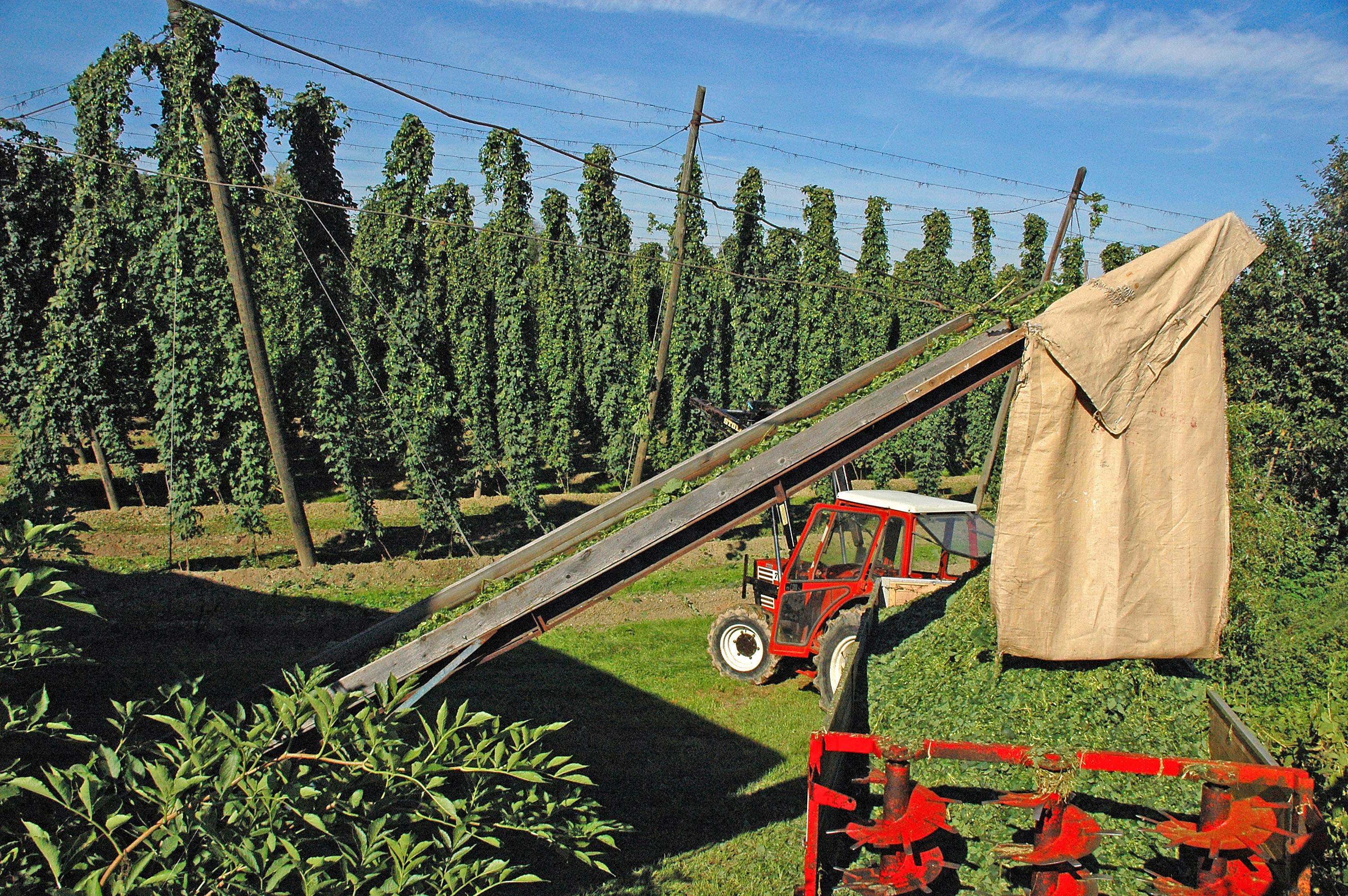 Hop harvest in the Holledau (Hallertau)